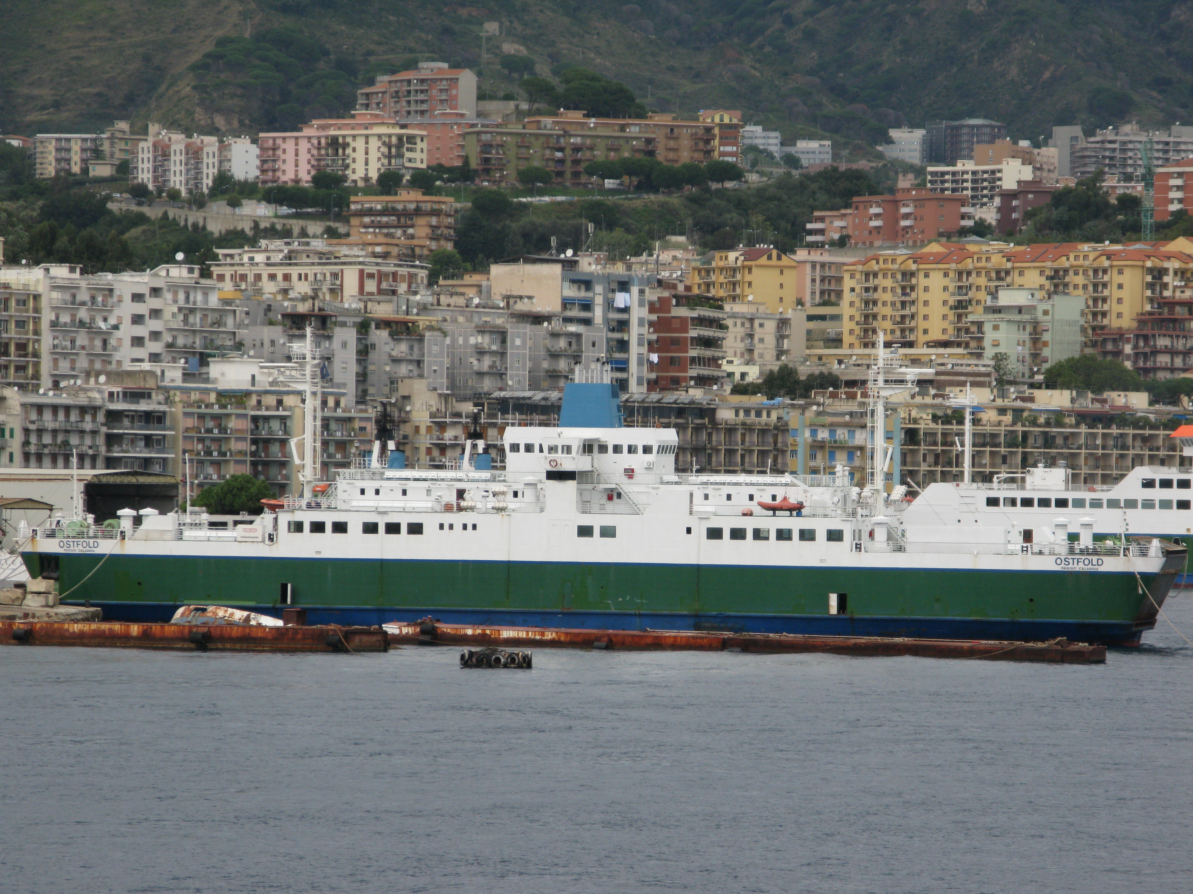 Ferry Ostfold (IMO: 7727425) - Rada San Francesco, Messina - Italy - Oct. 2009